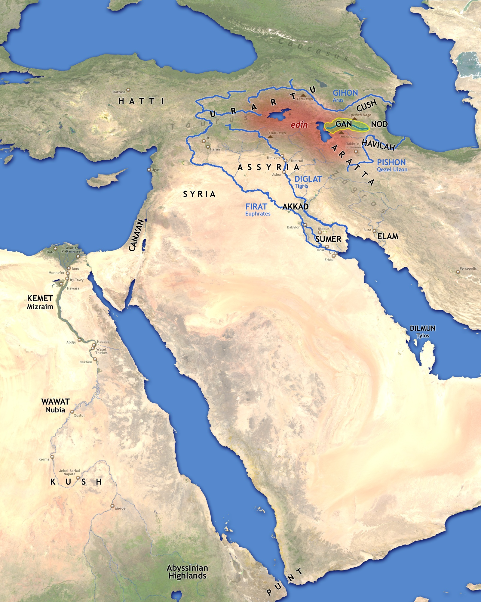 The ancient Middle East according to David Rohl